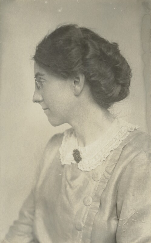 Pippa Strachey (1872–1968), English suffragist